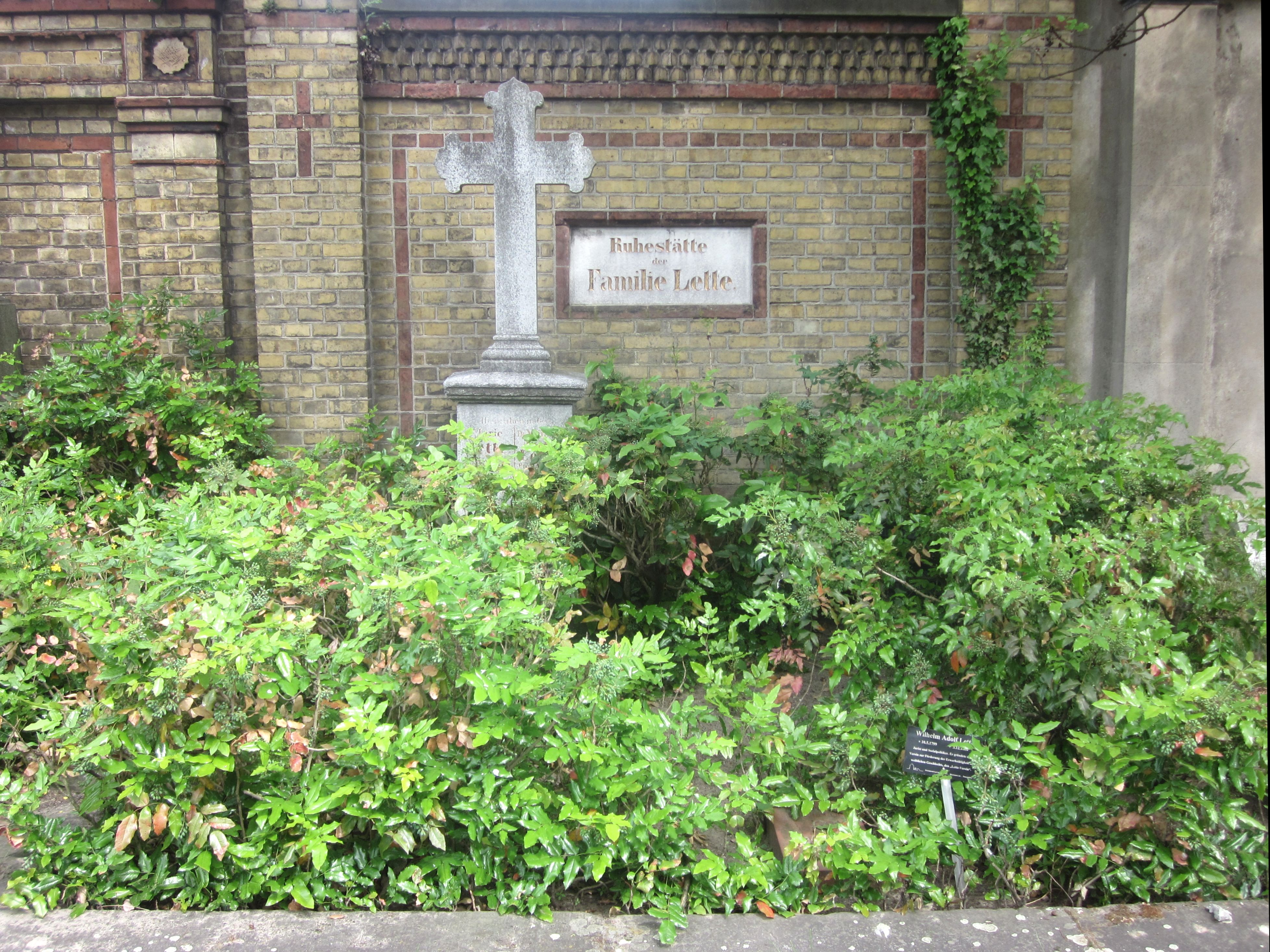 Family grave Lette on the Cemetery III of the Jerusalem and New Church (Cemeteries in front of Hallesches Tor) at Mehringdamm No. 21 in Berlin-Kreuzberg. Those who found their final resting place here include the politician and jurist Wilhelm Adolf Lette (1799-1868). Grave of Honor of the State of Berlin.